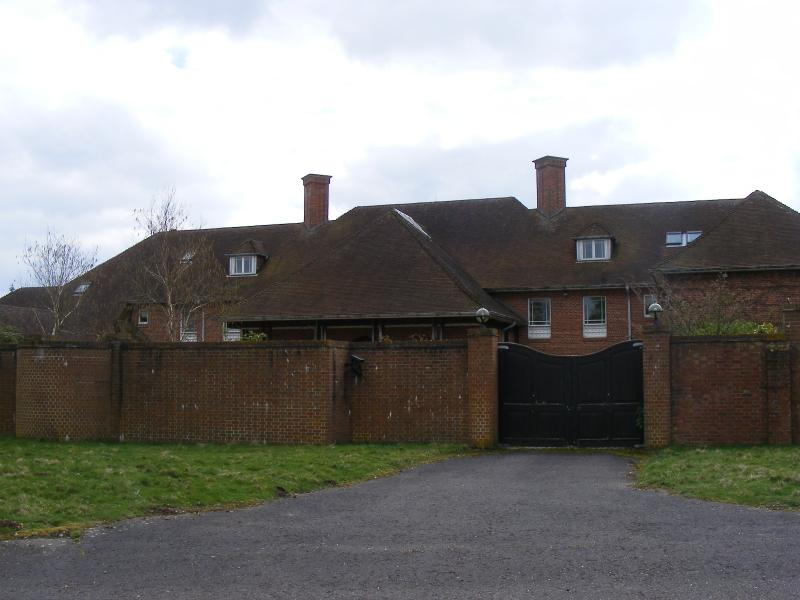 Sunninghill house, Berkshire, UK from the drive